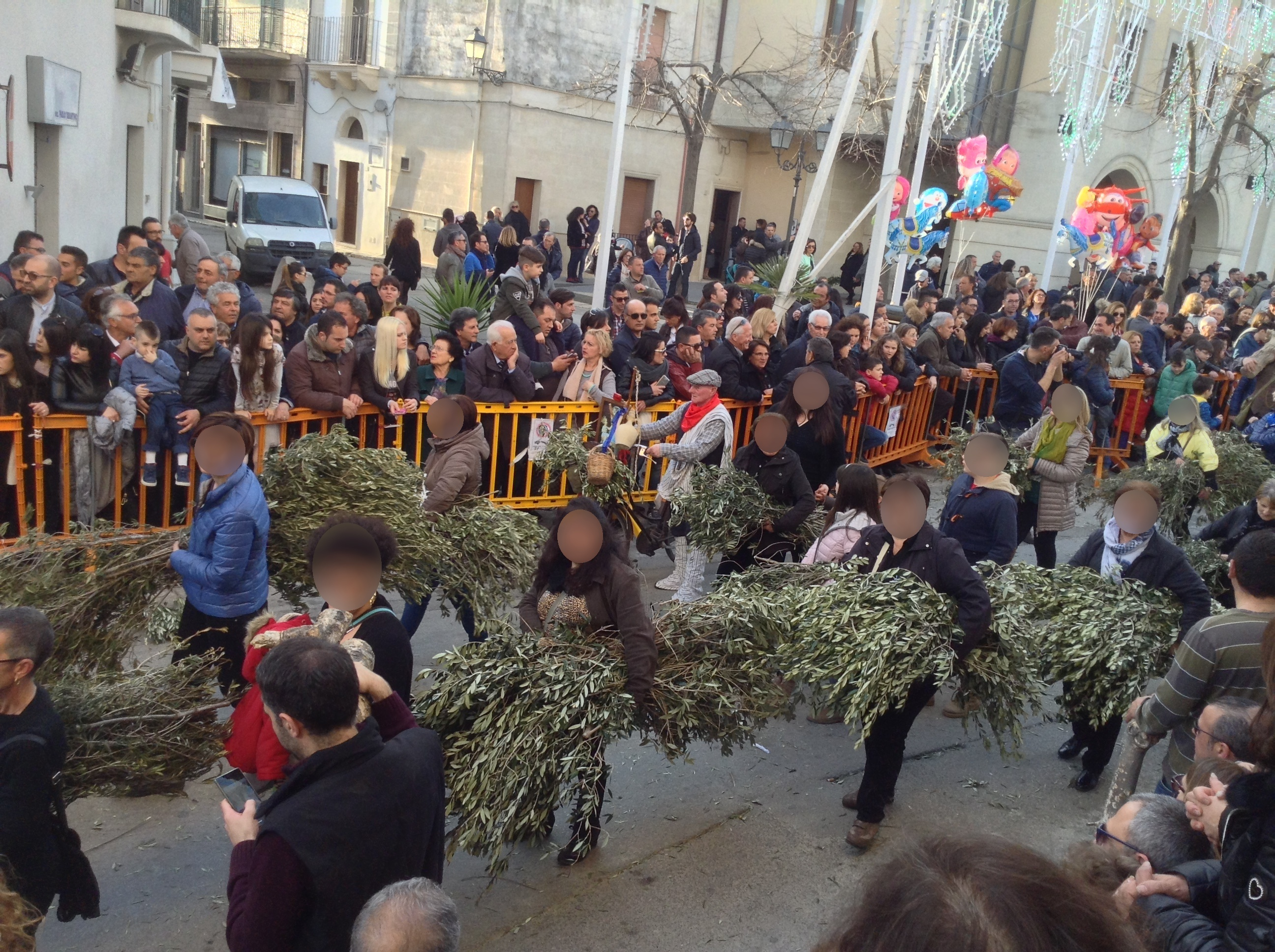 Procession of bundle of wood